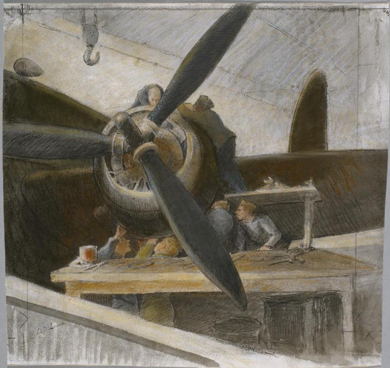 A view head-on to the wing nicelle and propeller of a plane as male and female ground crew gather around to do repairs.